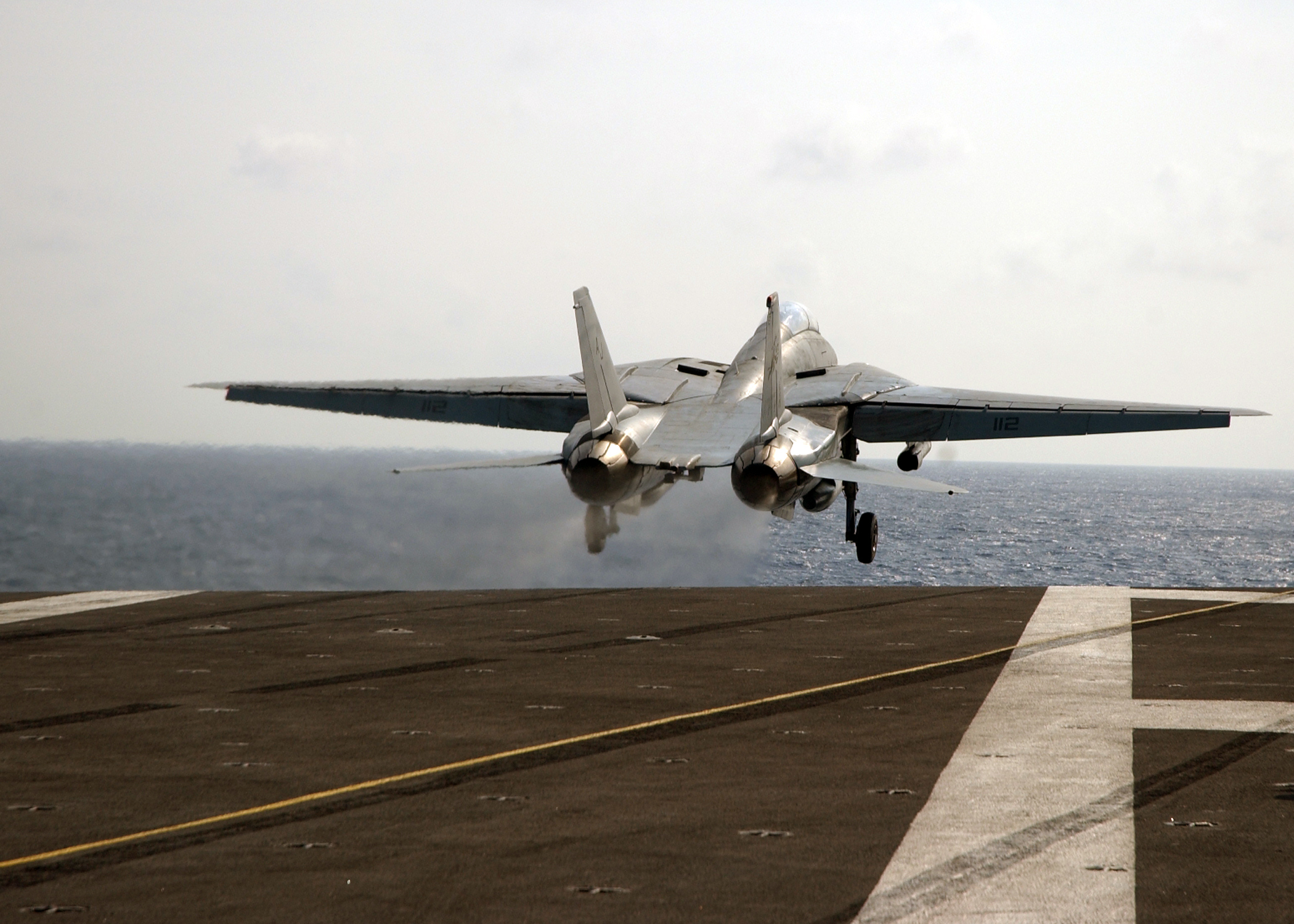 060728-N-7241L-004 Atlantic Ocean (July 28, 2006) – Aboard USS Theodore Roosevelt (CVN 71), an F-14D Tomcat assigned to the "Tomcatters" of Fighter Squadron Three One (VF-31), aircraft number 112, completes the final catapult launch of an F-14 Tomcat fighter aircraft. The last launch marks the end of an era for Naval Aviation. The F-14 will officially retire in September 2006, after 32 years of service to the fleet. Theodore Roosevelt is completing Joint Task Force Exercises with USS Dwight D. Eisenhower (CVN 69). U.S. Navy Photo by Mass Communication Specialist 3rd Class Nathan Laird (RELEASED)